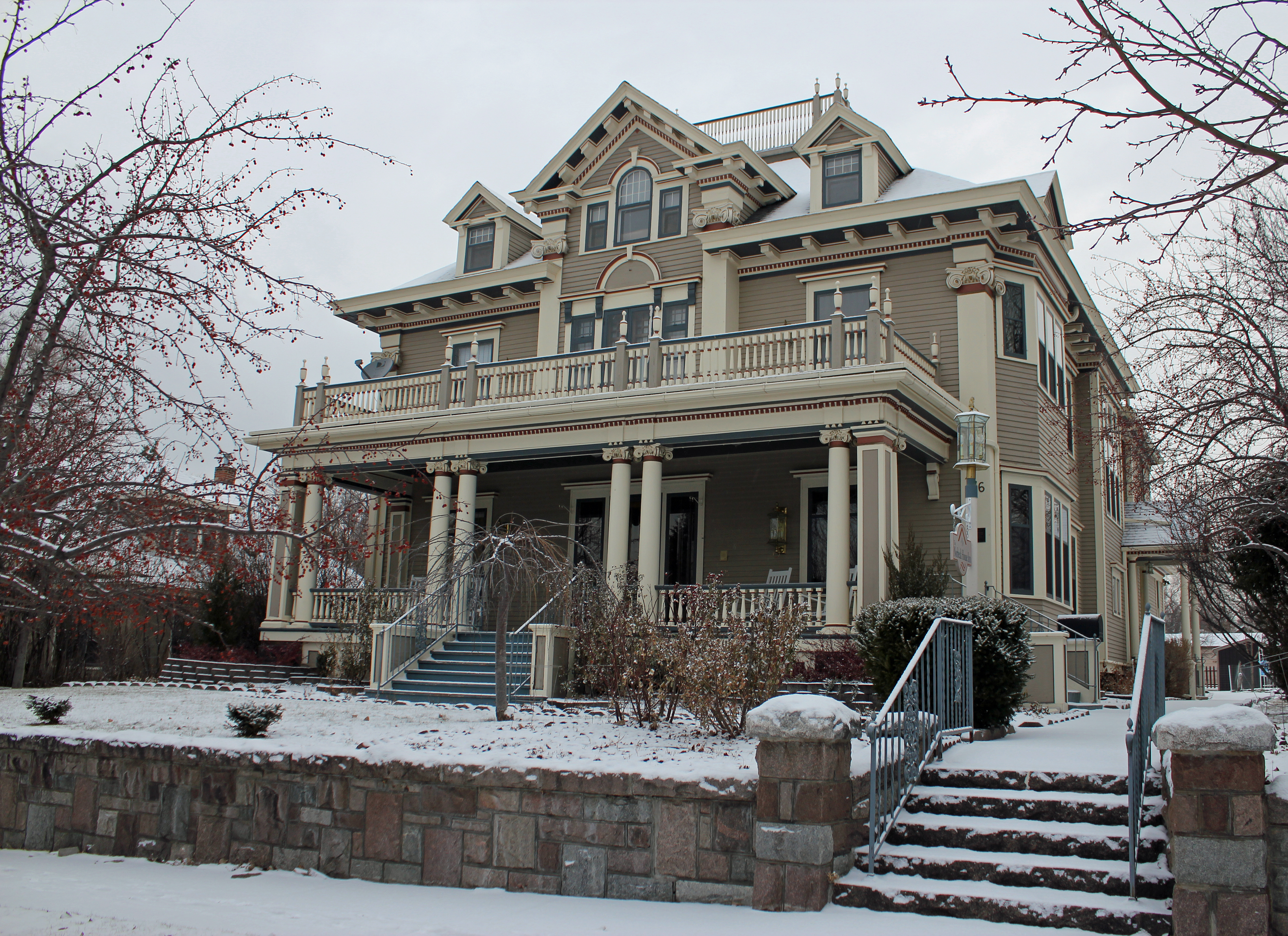 The Farr House, located at 106 East Wynoka Street in Pierre, South Dakota. The house is listed on the National Register of Historic Places.